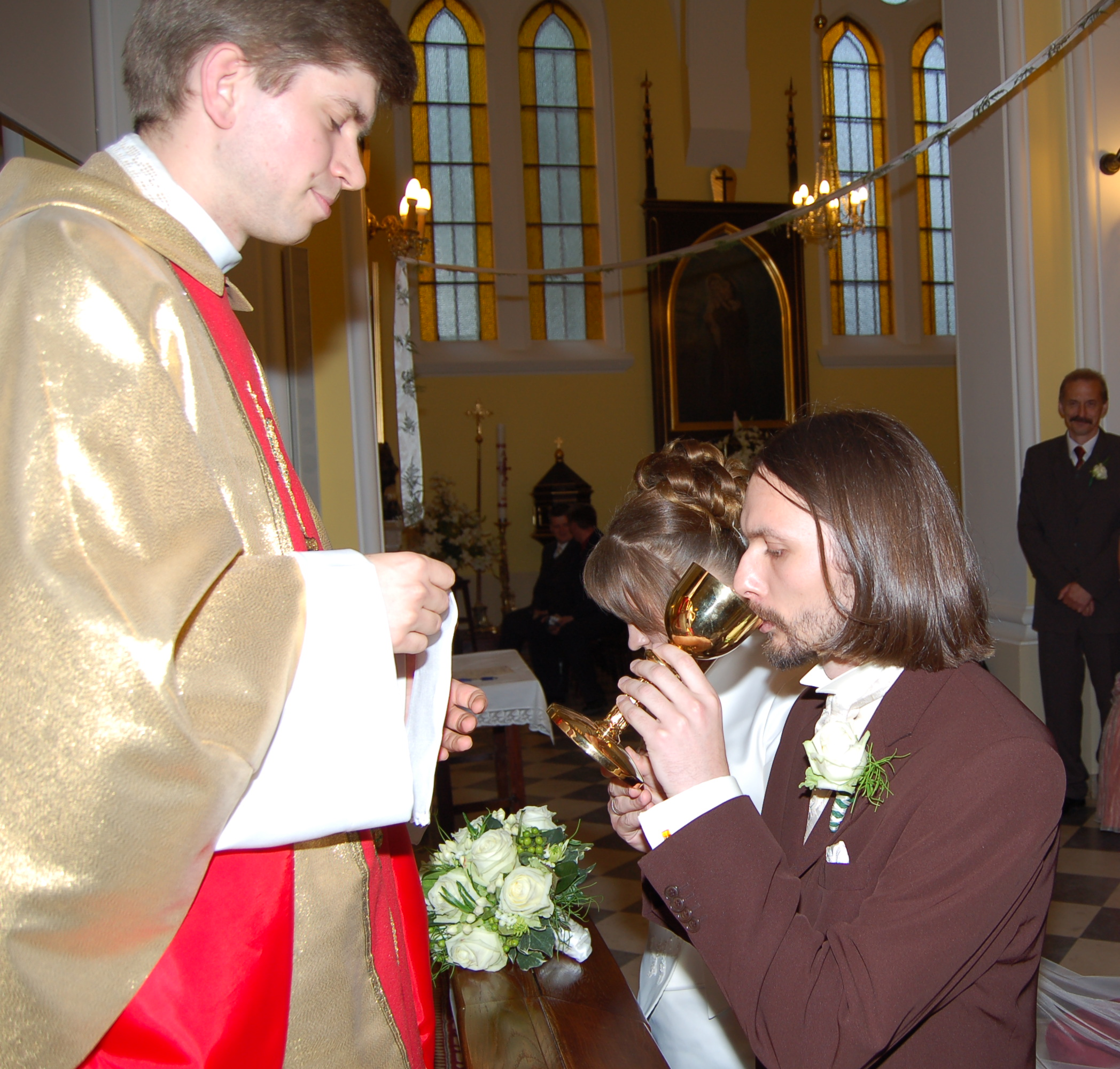 Ejdzej and Iric wedding photoRoman-catholic marraige communion